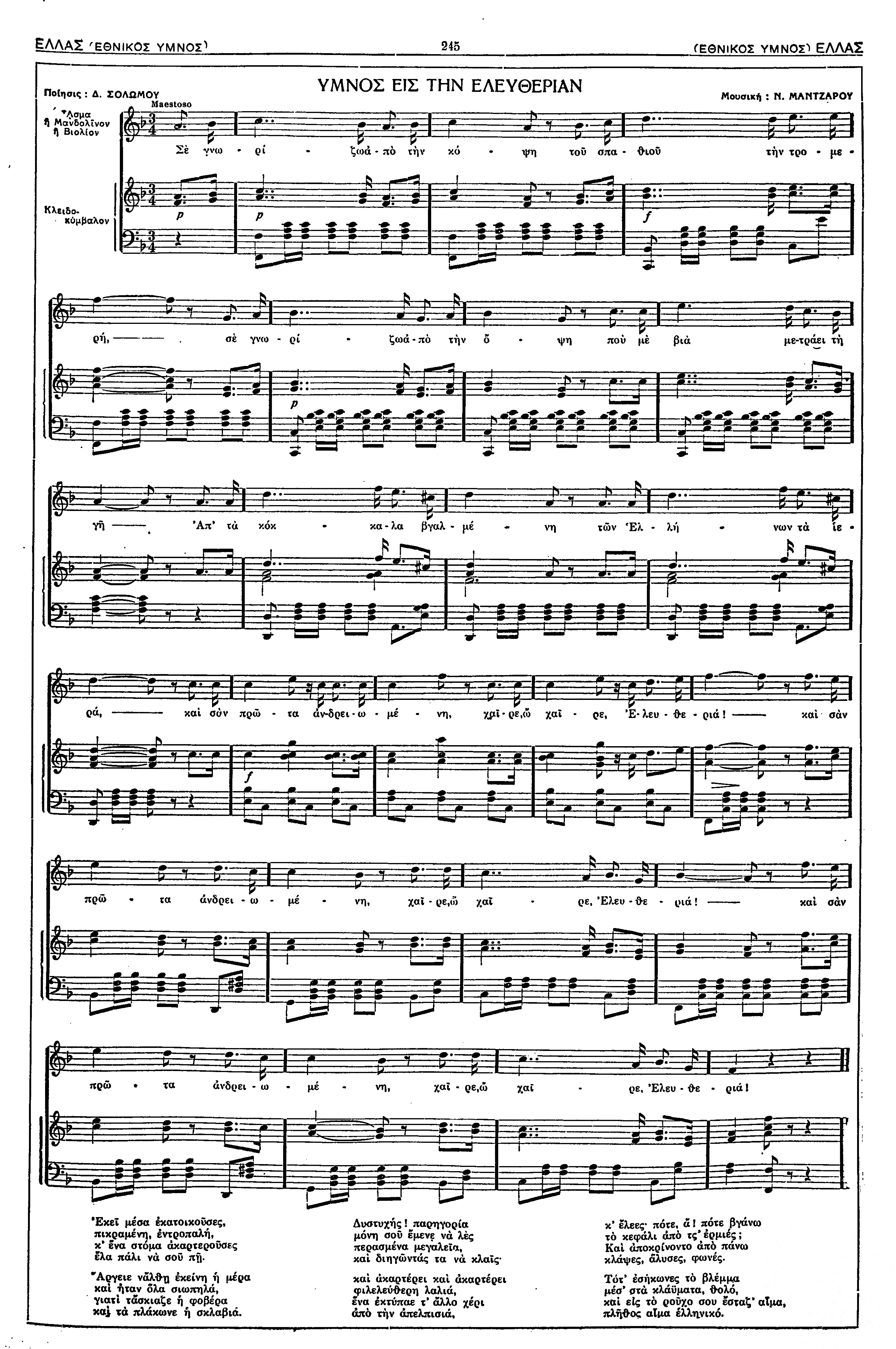 National anthem of Greece (Hymnos eis tin eleftheria / Hymn to Freedom) score and lyics.